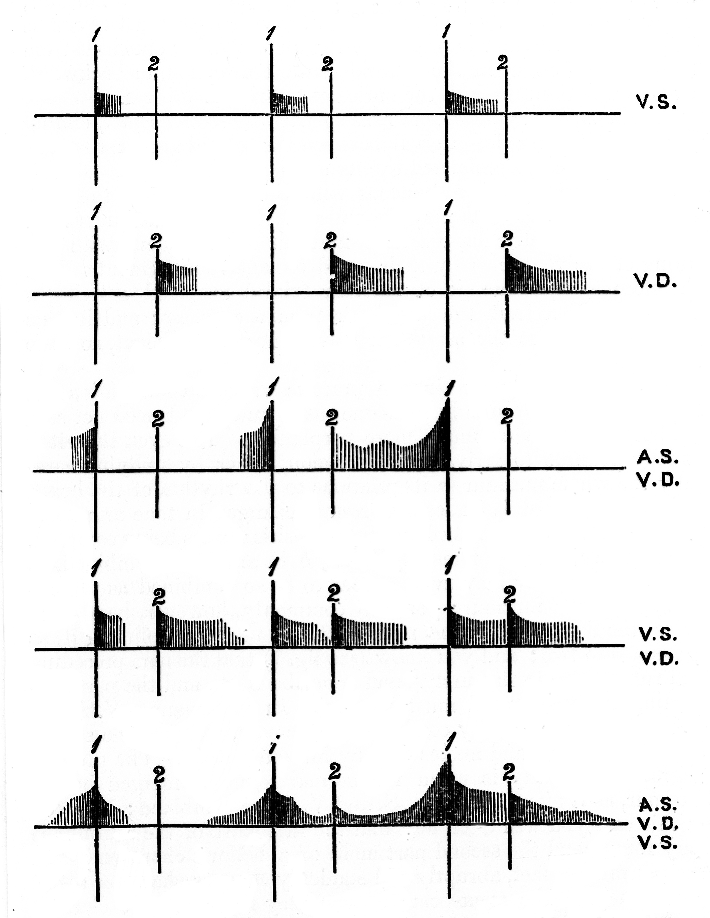 Charts indicating the rythm of the various cardiac murmurs General Collections Keywords: Clinical Medicine; W. T. Gairdner